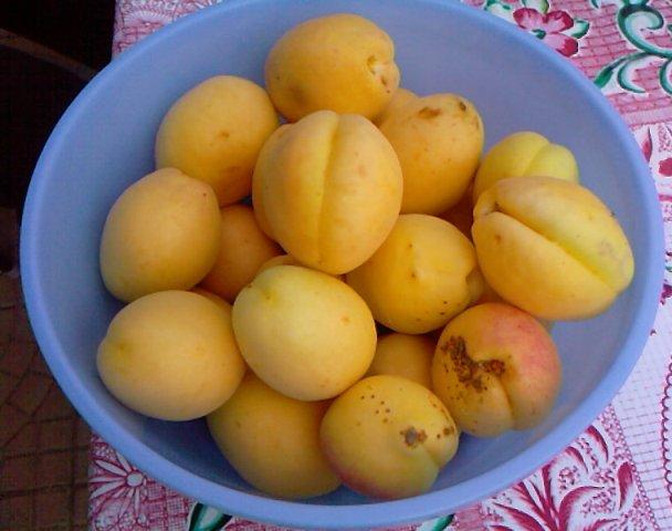 Igdir Apricot